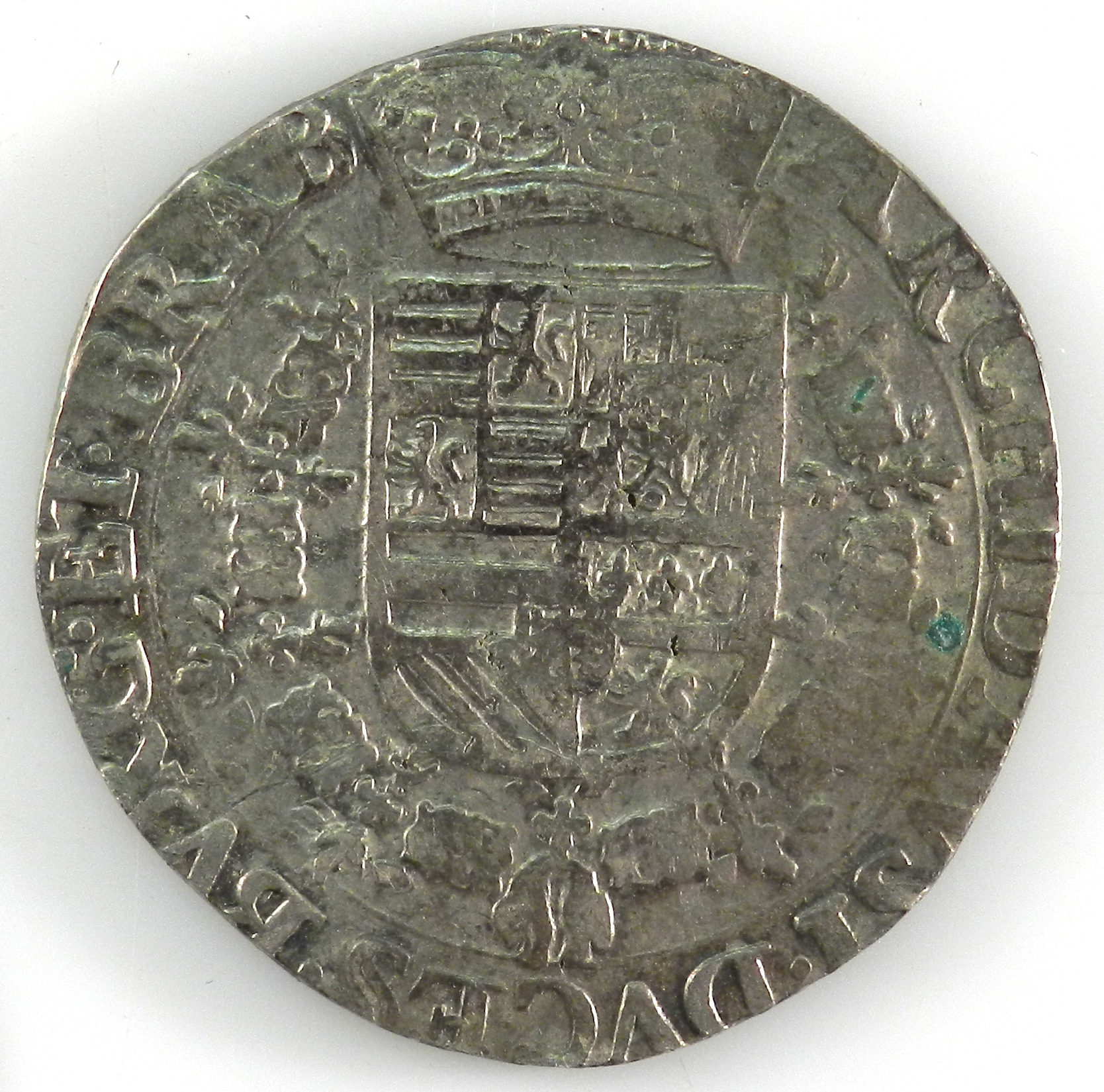 Reverse (back) of a Patagon of Albert VII Archduke of Austria, showing crowned arms. Of type: Van Gelder and Hoc. From Pot B of the Middleham Hoard